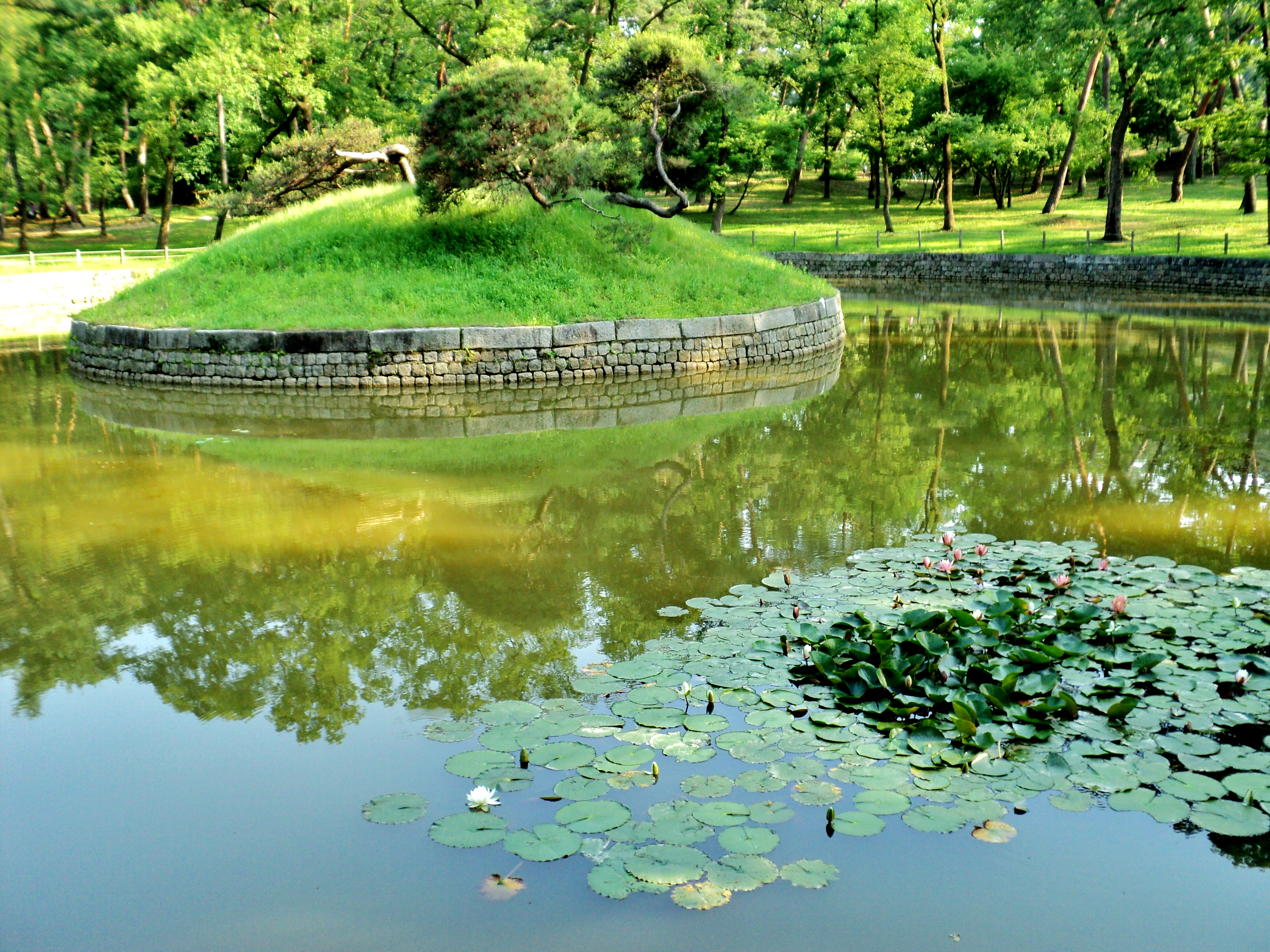 Hongyureung, tomb complex in Korea